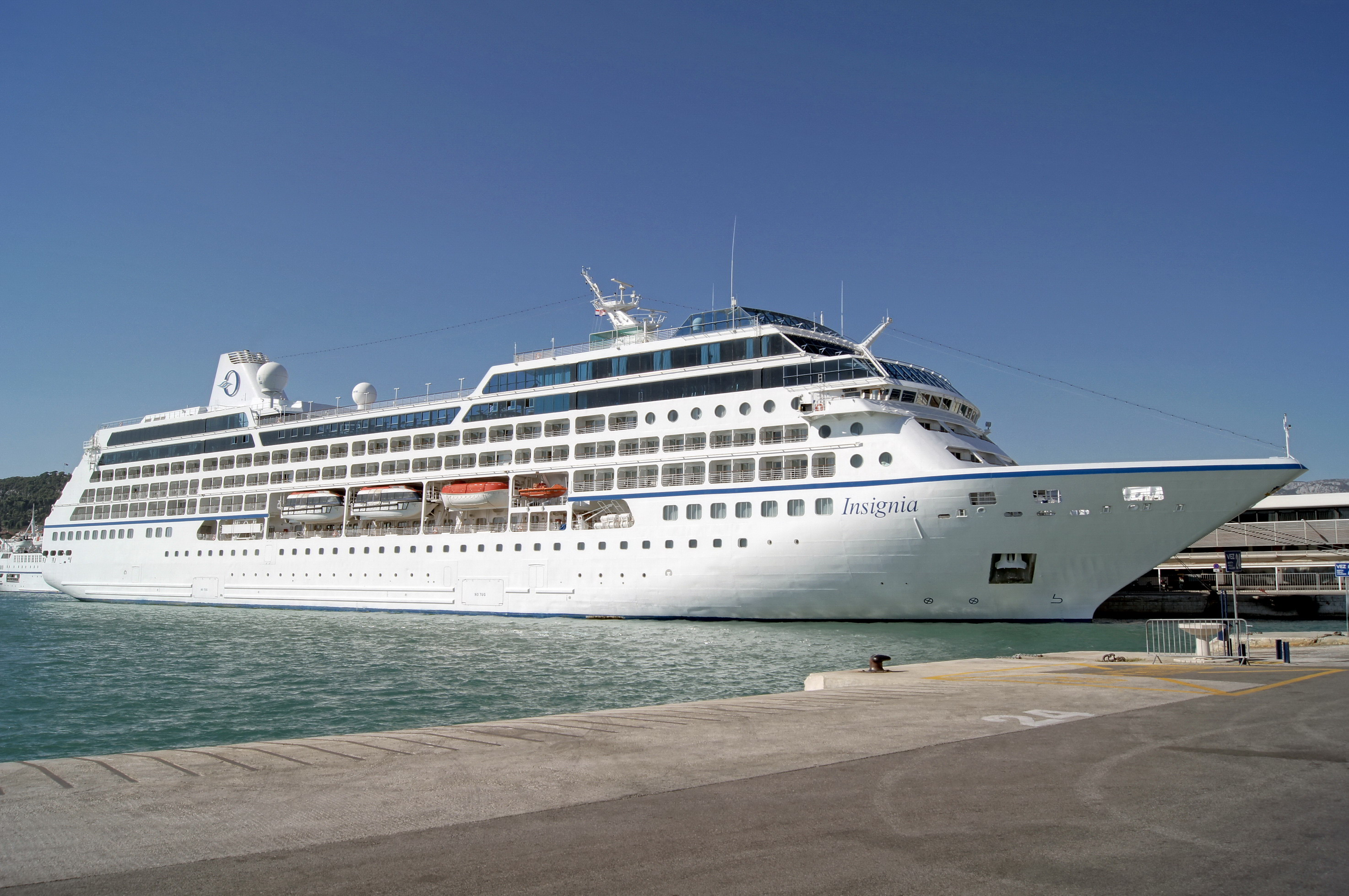 Insignia (ship, 1998) IMO 9156462; in Split, 2011-10-01